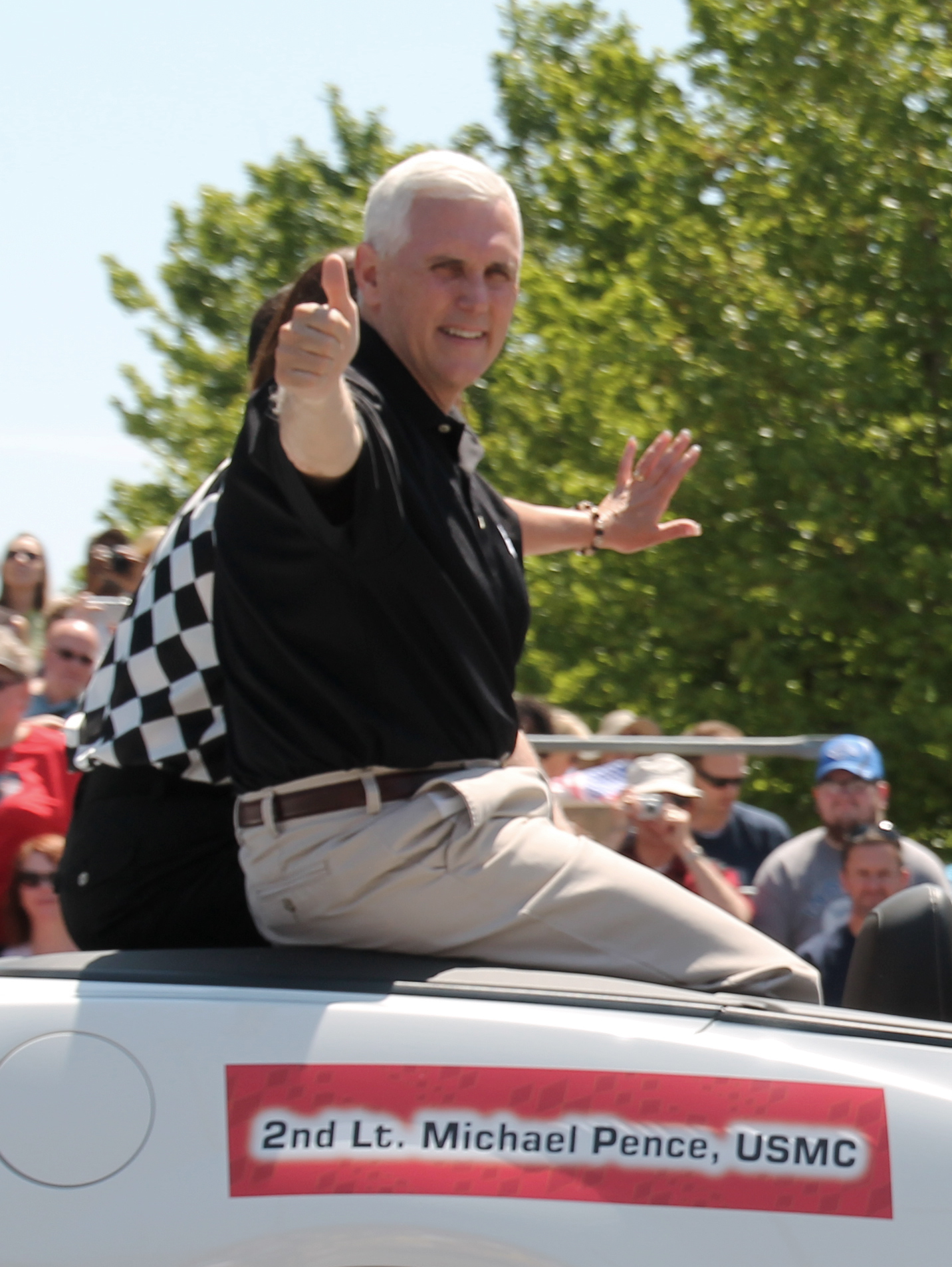 Governor Mike Pence at the 2015 500 Festival Parade in Indianapolis, Indiana